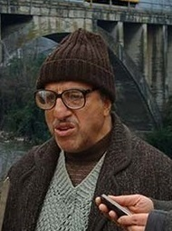 بابا پنجعلی